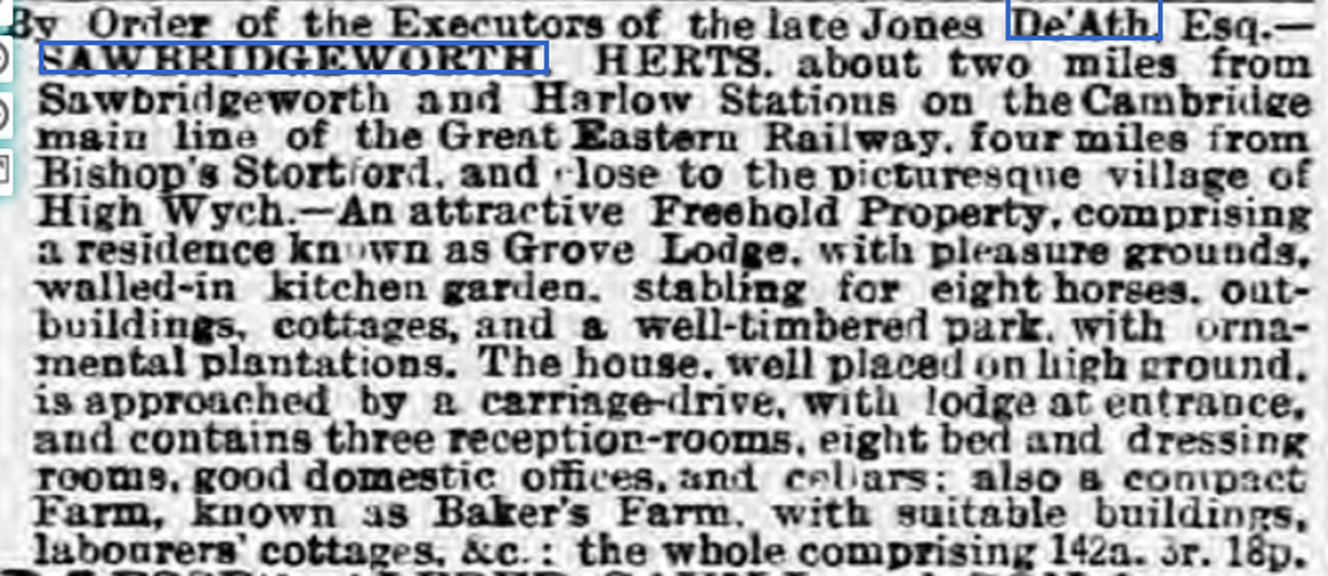 Sale notice for the Manor of Groves, Hertfordshire, 1892